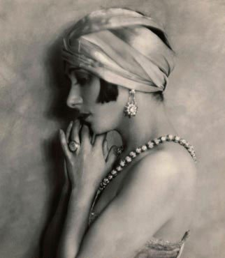 Baroness Elfriede Ehrenfels von Bodmershof